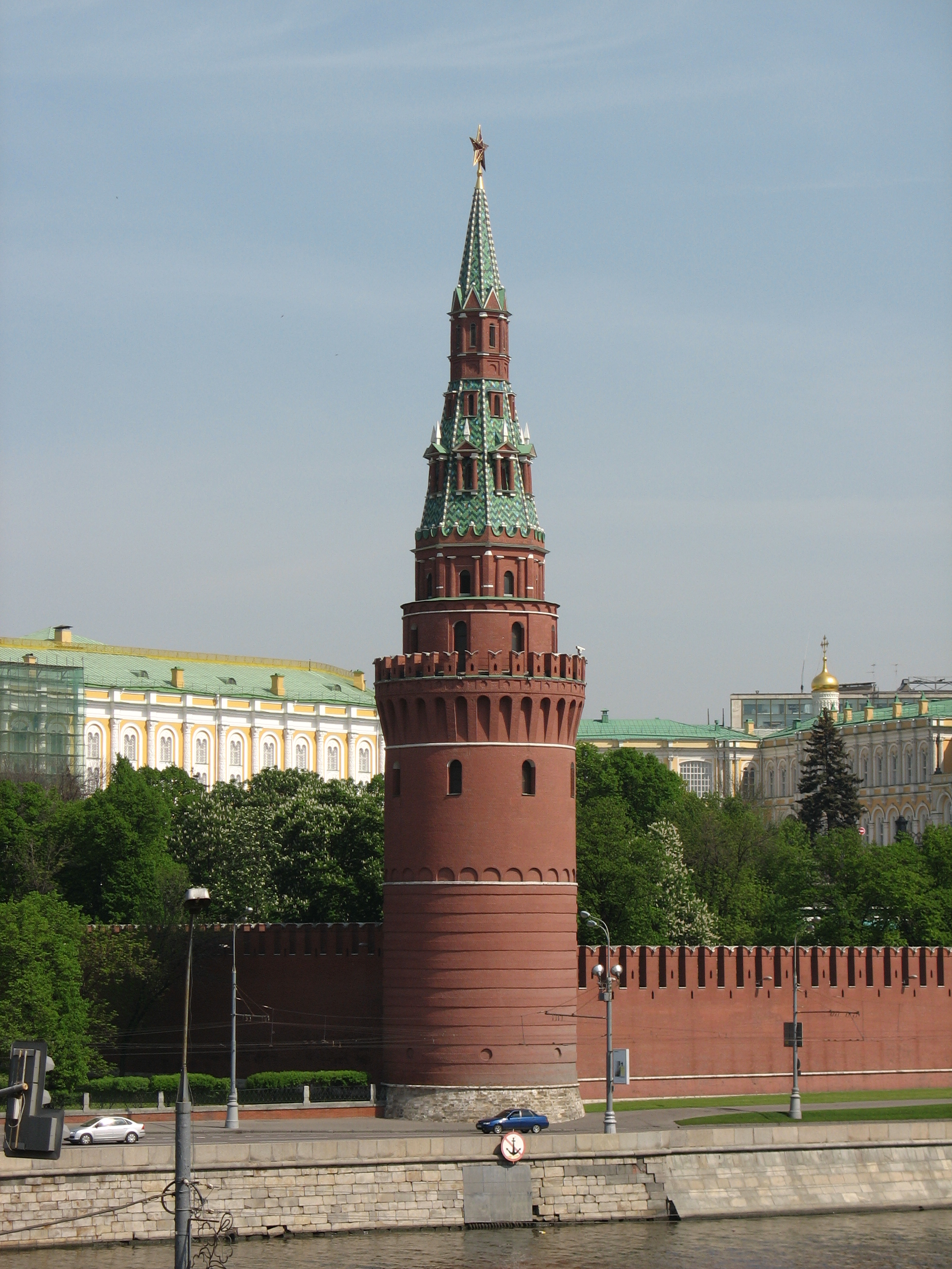 Vodovzvodnaya Tower of Moscow Kremlin